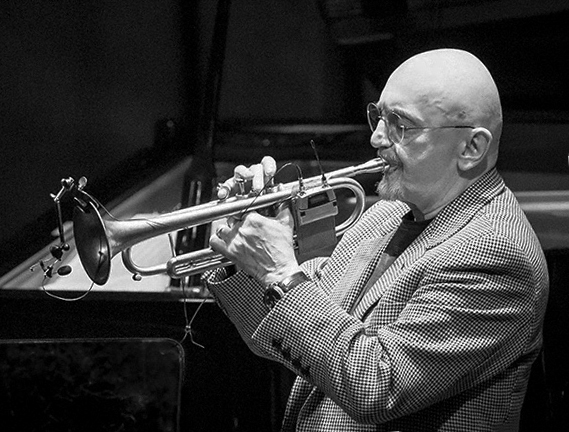 Polish musician Tomasz Stańko performs at Cosmopolite Scene (Oslo, Norway; 9 April 2016).Lineup: Tomasz Stanko (trumpet), David Virelles (piano), Reuben Rogers (bass), Gerald Cleaver (drums)